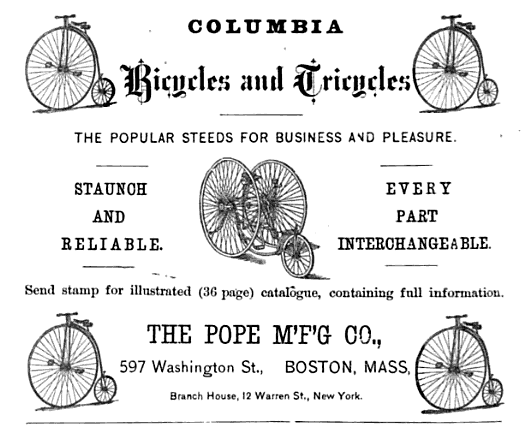 Advertisement for Pope Manufacturing Co., Boston, Massachusetts, USA